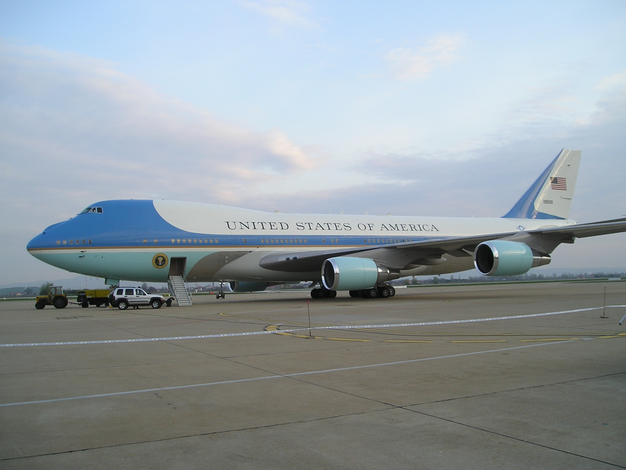 Air Force One on Airport Zagreb